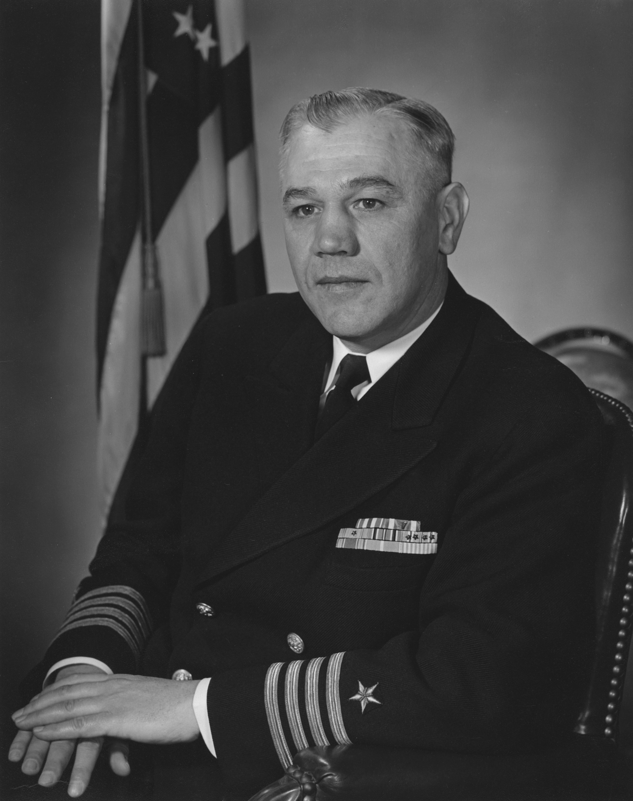 Captain Gerald L. Ketchum